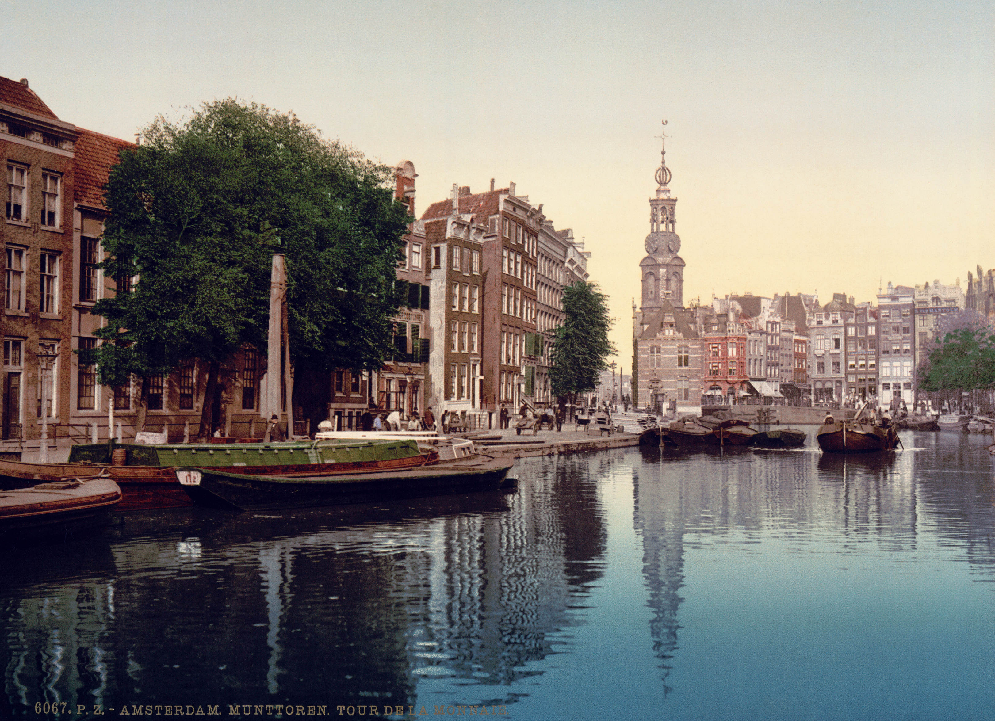 The Singel in Amsterdam, the Netherlands viewed towards the Muntplein with the Munttoren.